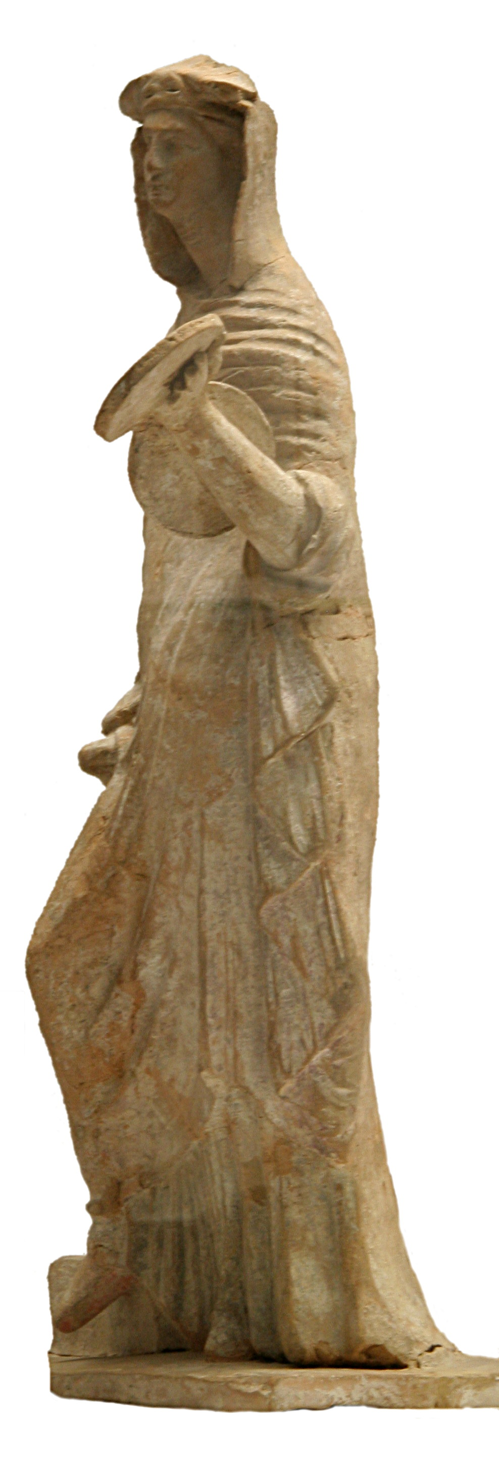 Photographed by myself